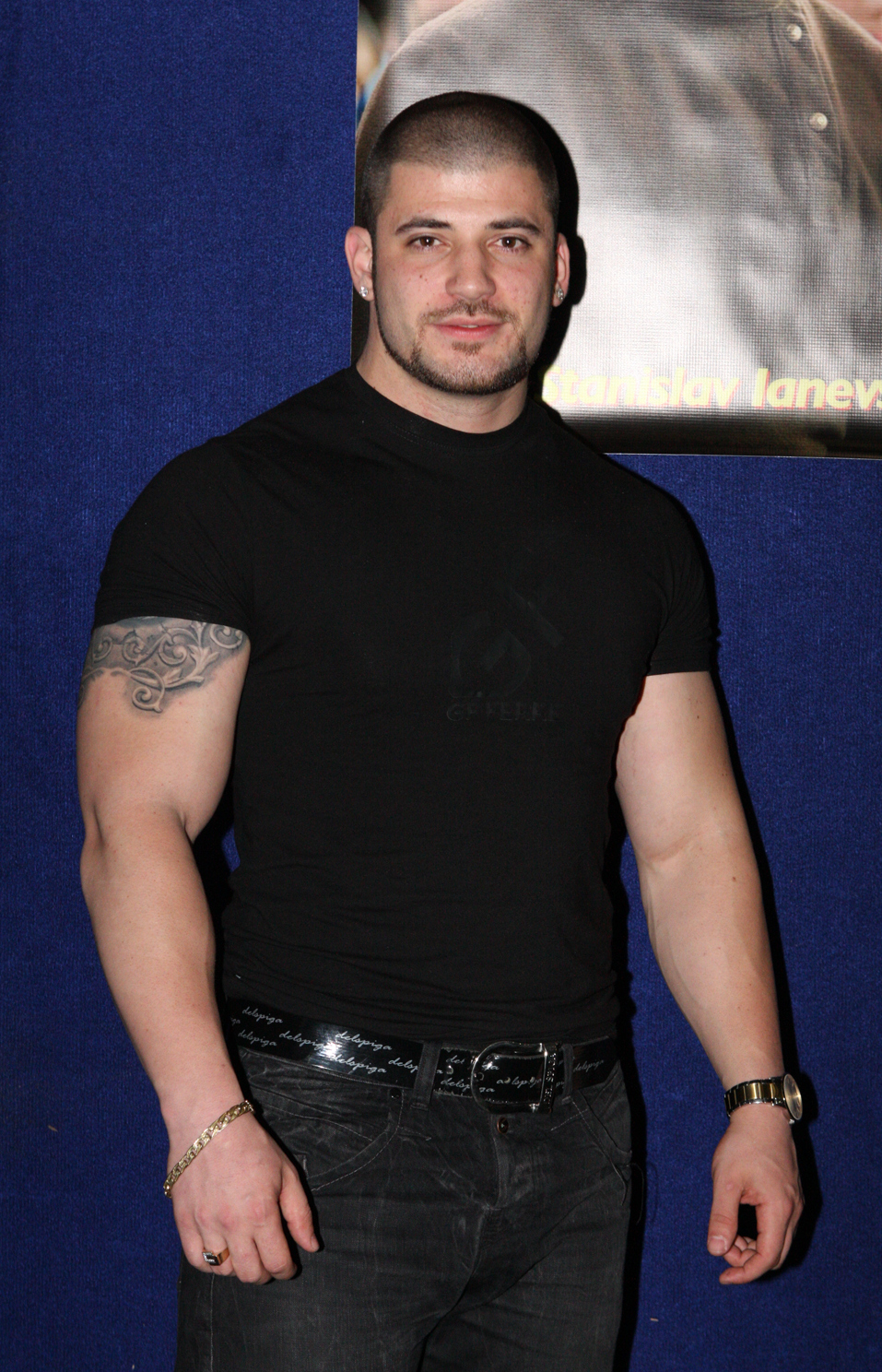 Stanislav Ianevski (Bulgarian: Станислав Яневски; born May 16, 1985) is a Bulgarian actor, known for playing Viktor Krum in the 2005 film Harry Potter and the Goblet of Fire. Supernova Pop Culture Expo, Sydney, Australia.